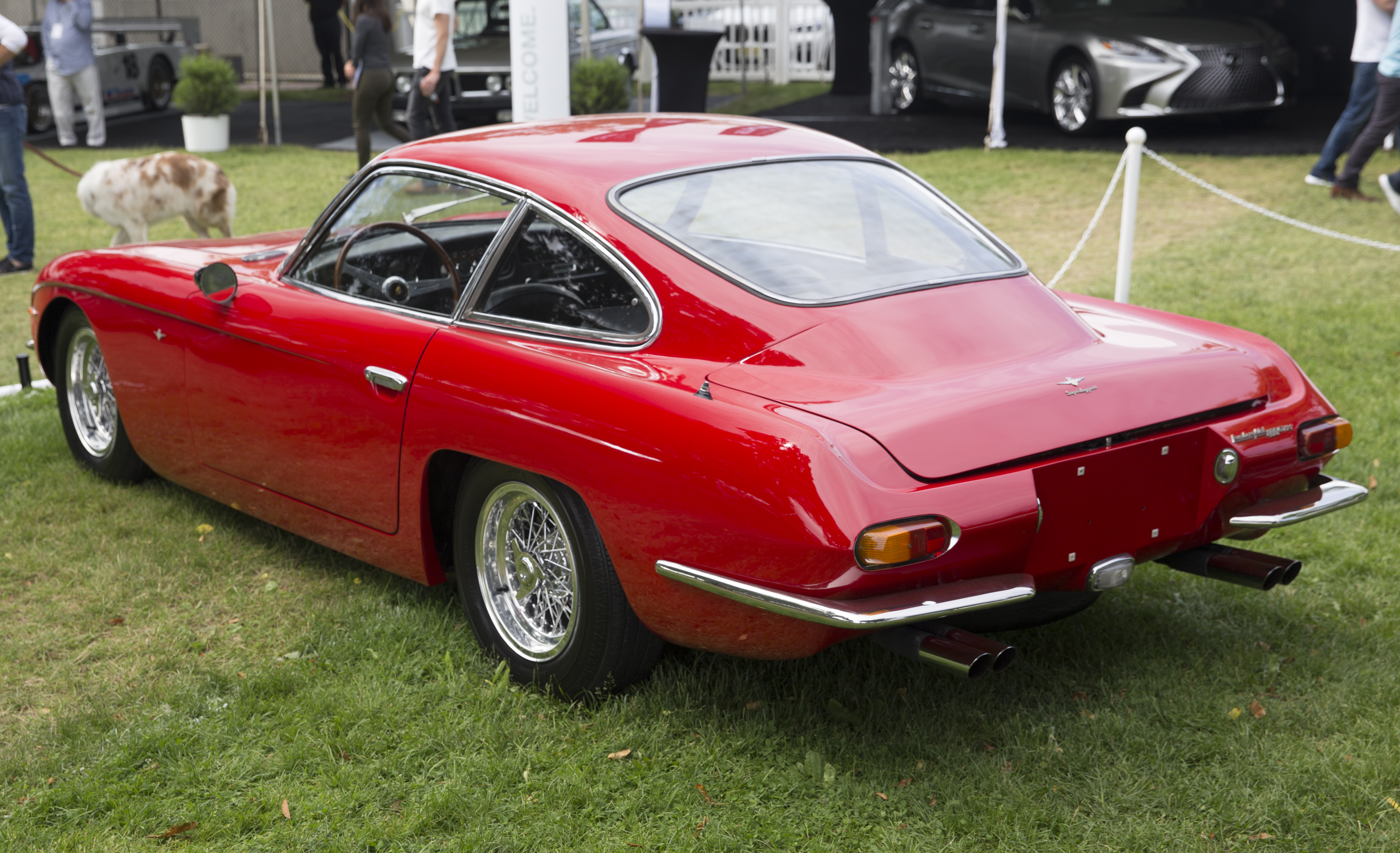 A 1967 Lamborghini 400 GT 2+2 at the 2018 Greenwich Concours d'Elegance. Unrestored, 13,000 miles. Belongs to Arthur Mbanefo, the Odu (chief) of Onitsha.